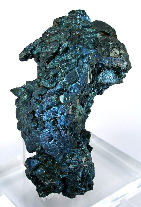 Chalcocite Locality: Flambeau Mine, Ladysmith, Rusk County, Wisconsin, USA (Locality at ) Size: 11.5 x 7.2 x 6.0 cm. This is a dramatically crystallized specimen of iridescent, bluish-purple chalcocite from mining in the mid-1990s here at this now reclaimed and closed-off locale. The largest crystal measures 2.5 cm across, and the whole surface is covered with sharp and colorful crystals. Ex. Harold Urish Collection.